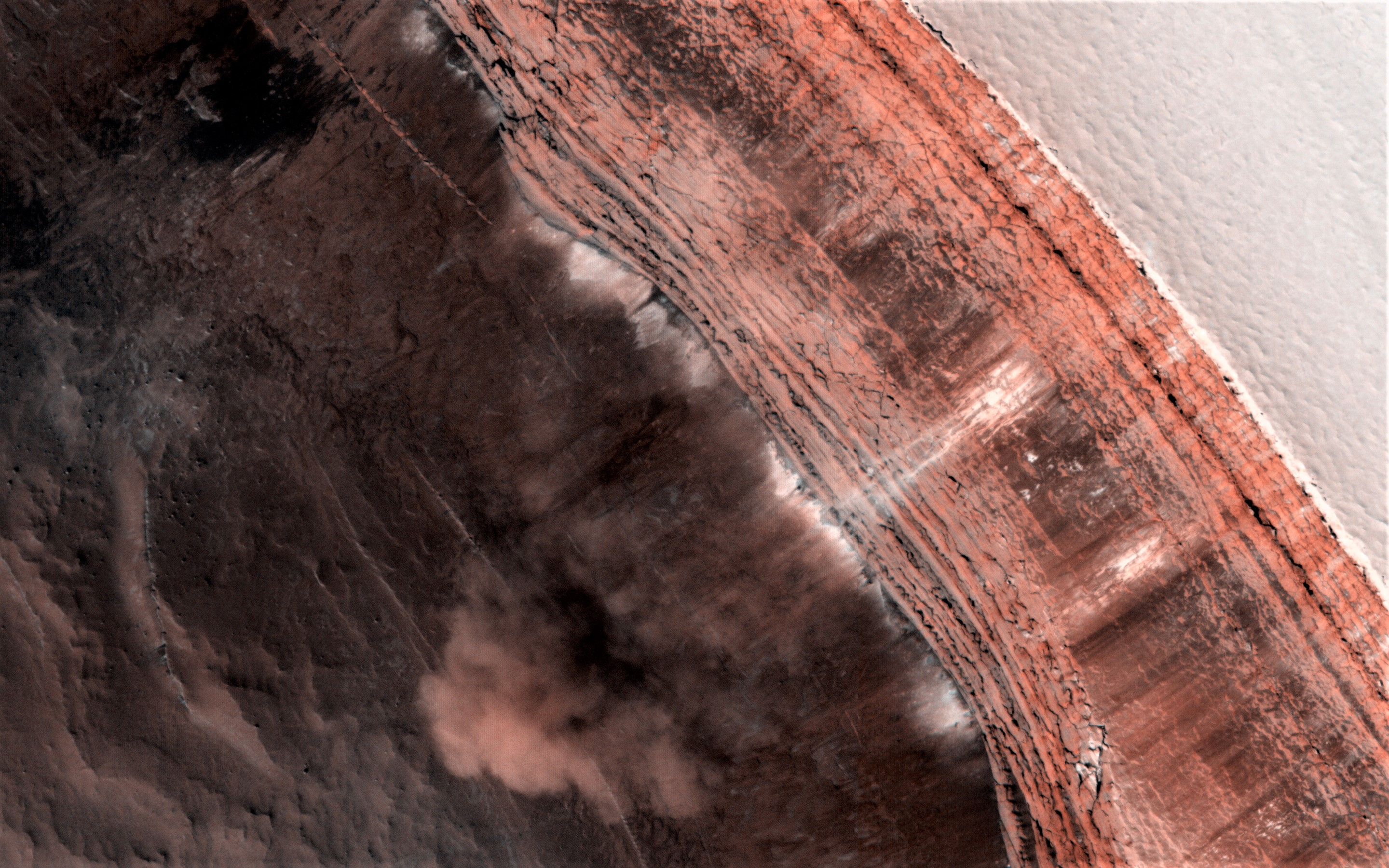 Avalanche on North pole scarp on Mars